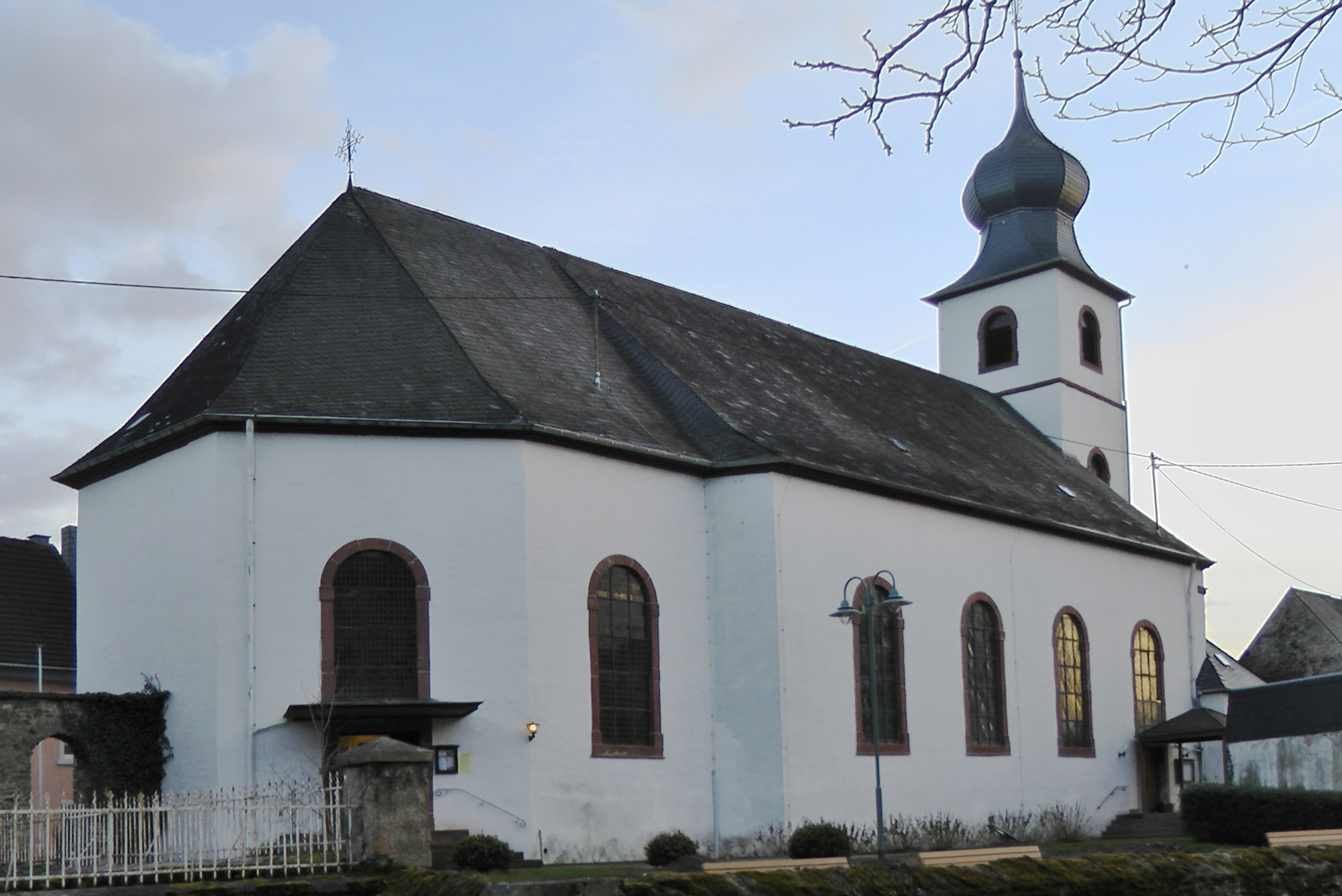 Simultaneum Brauneberg